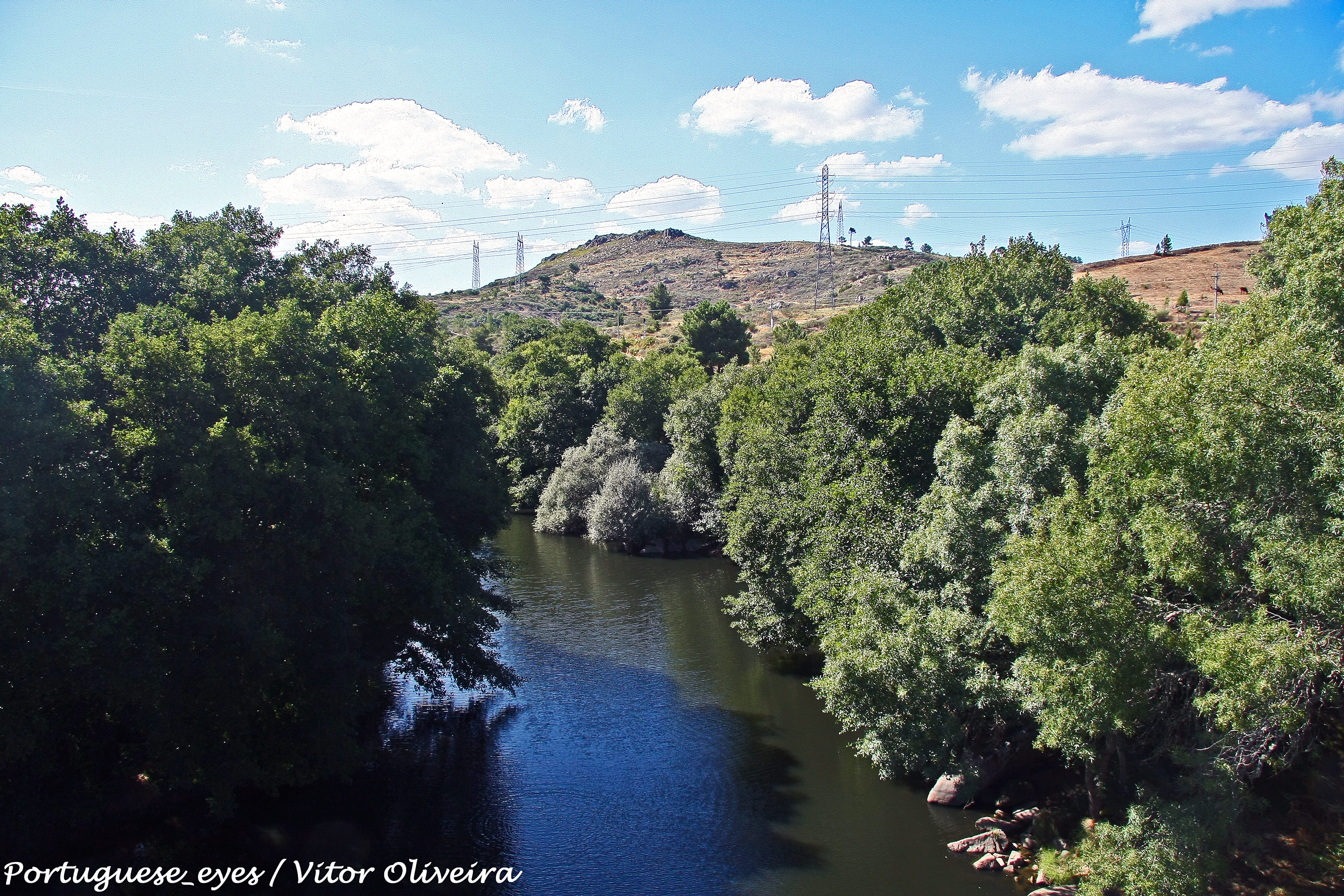 See where this picture was taken. [?]